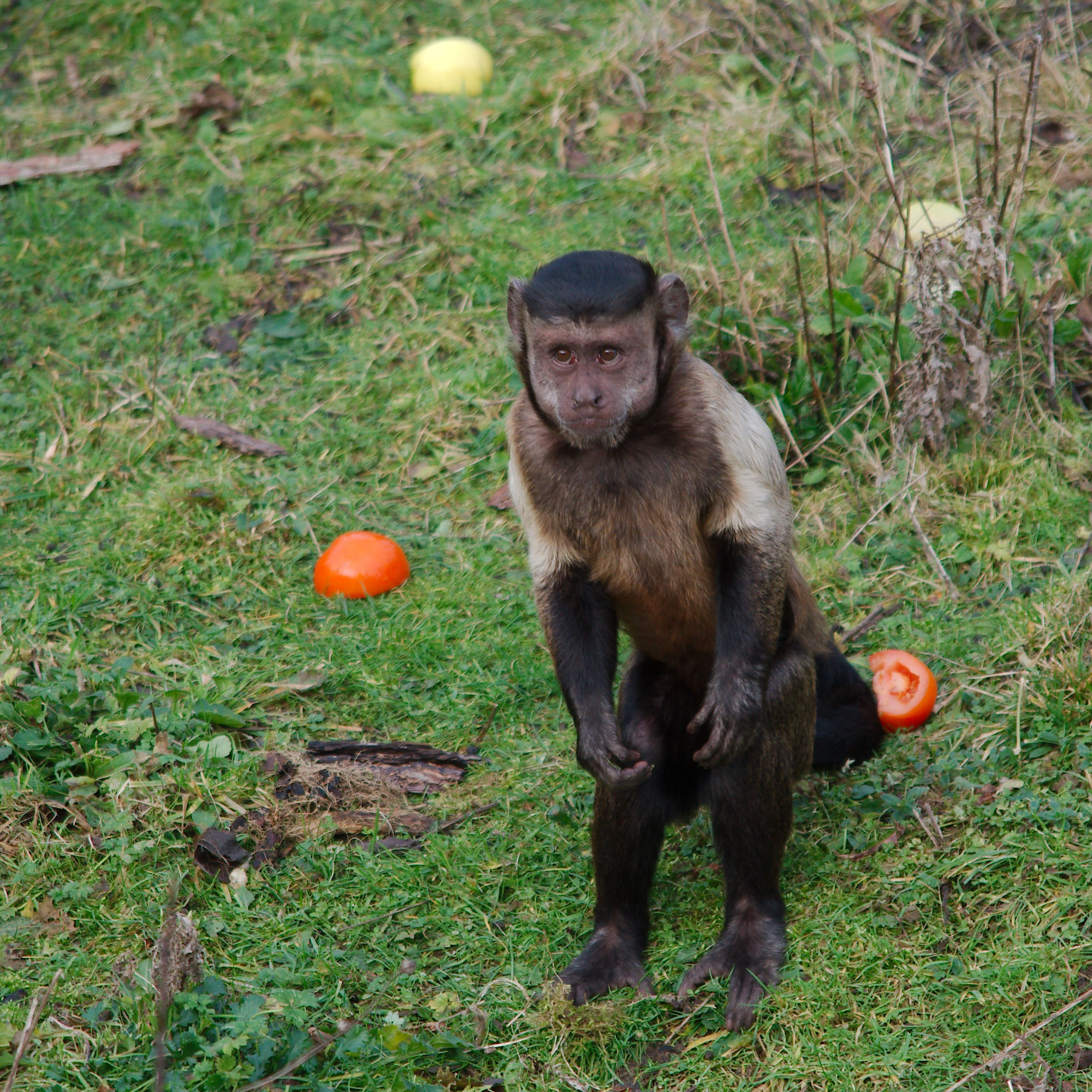 An image of a capuchin monkey standing on 2 legs, with what appears to be fruit or toys nearby